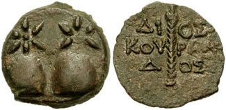 COLCHIS. Dioscurias. Late 2nd Century BC. Æ 15mm (2.06 gm). Two pilei surmounted by stars / Thyrsos. SNG BM Black Sea 1021; SNG Stancomb 638. Nice VF.